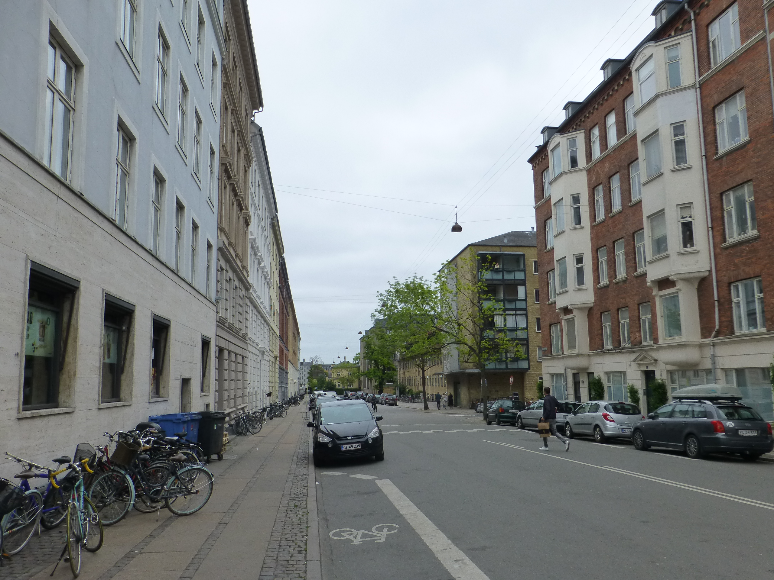 The street Nøjsomhedsvej in Østerbro in Copenhagen.